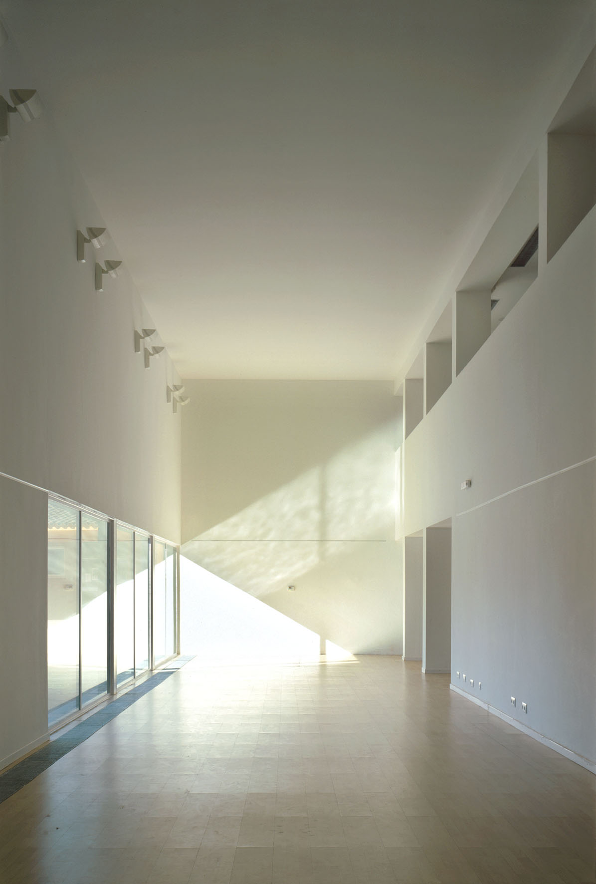 Interior of the Music and Dance School of Palafolls build between 1999 and 2002